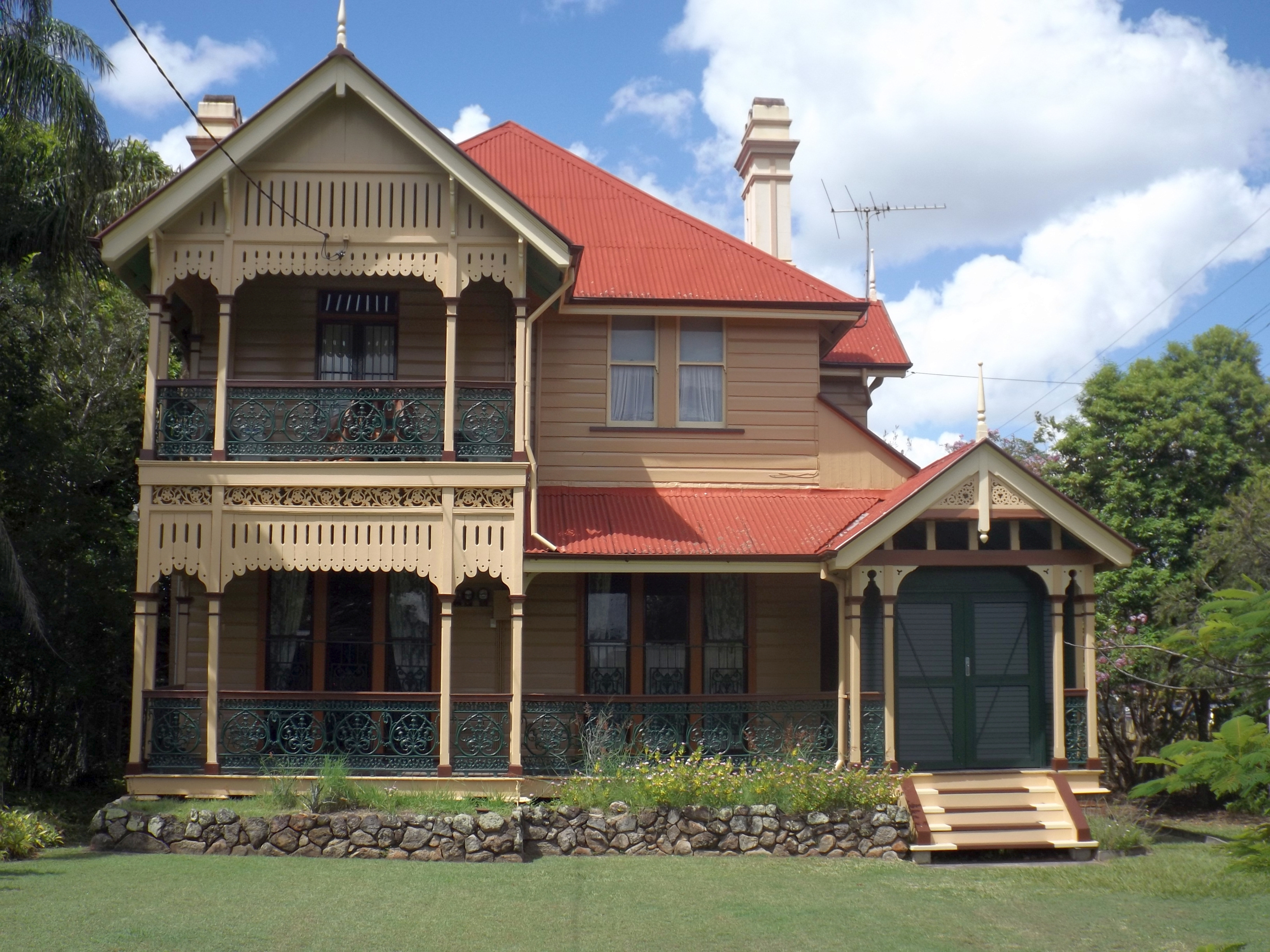 Photo of residence known as Nassagaweya at West End, Brisbane, Queensland, Australia.